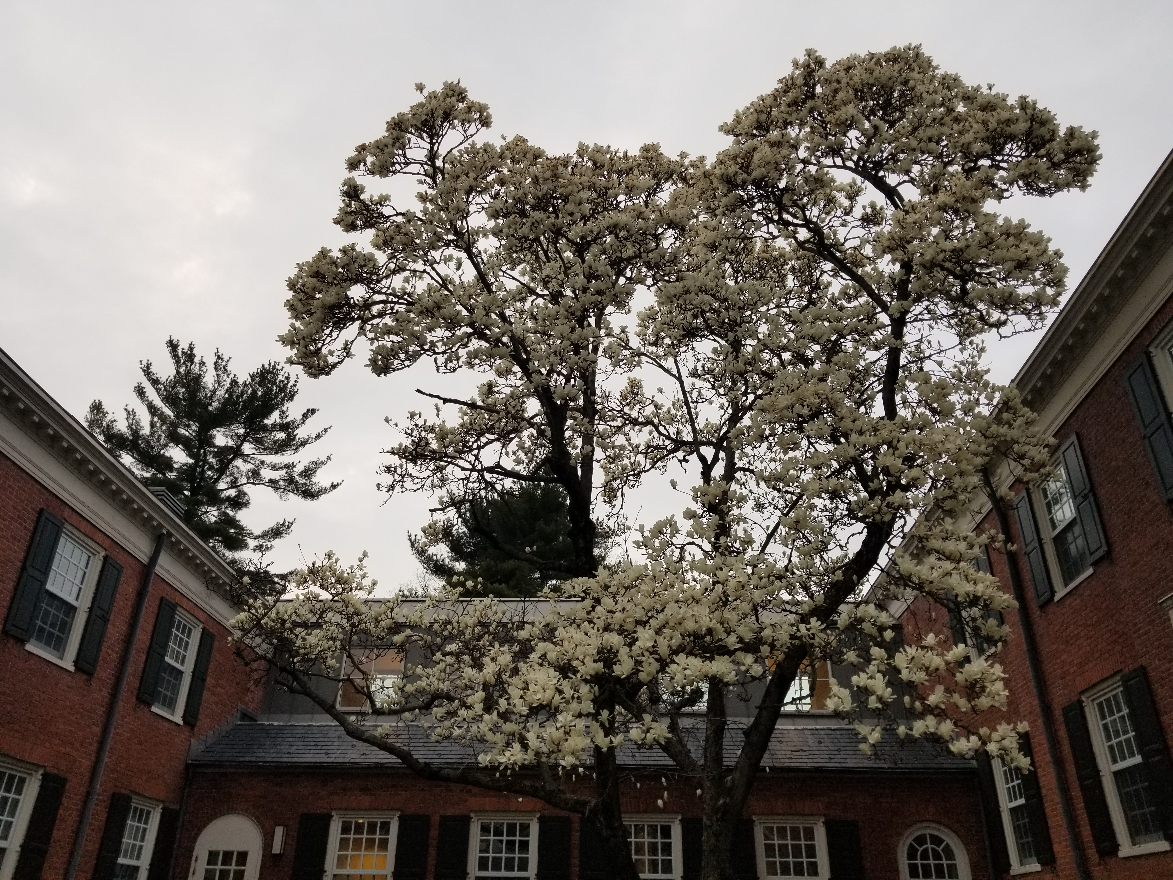 2020 Spring, a courtyard at Sterling Divinity Quadrangle